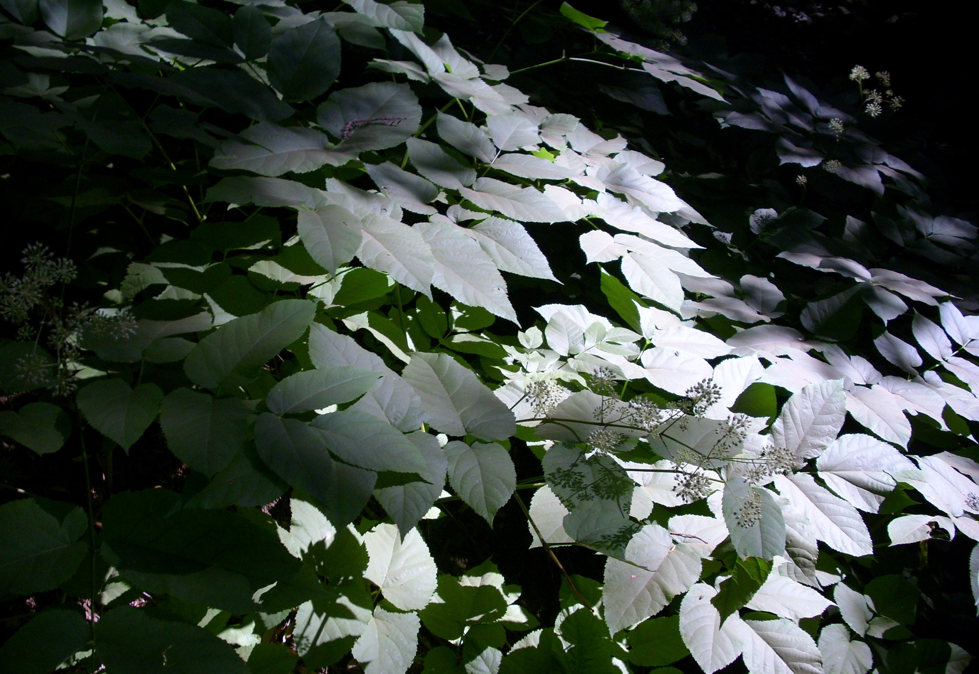 Light shinging through trees onto leaves in Muir Forest